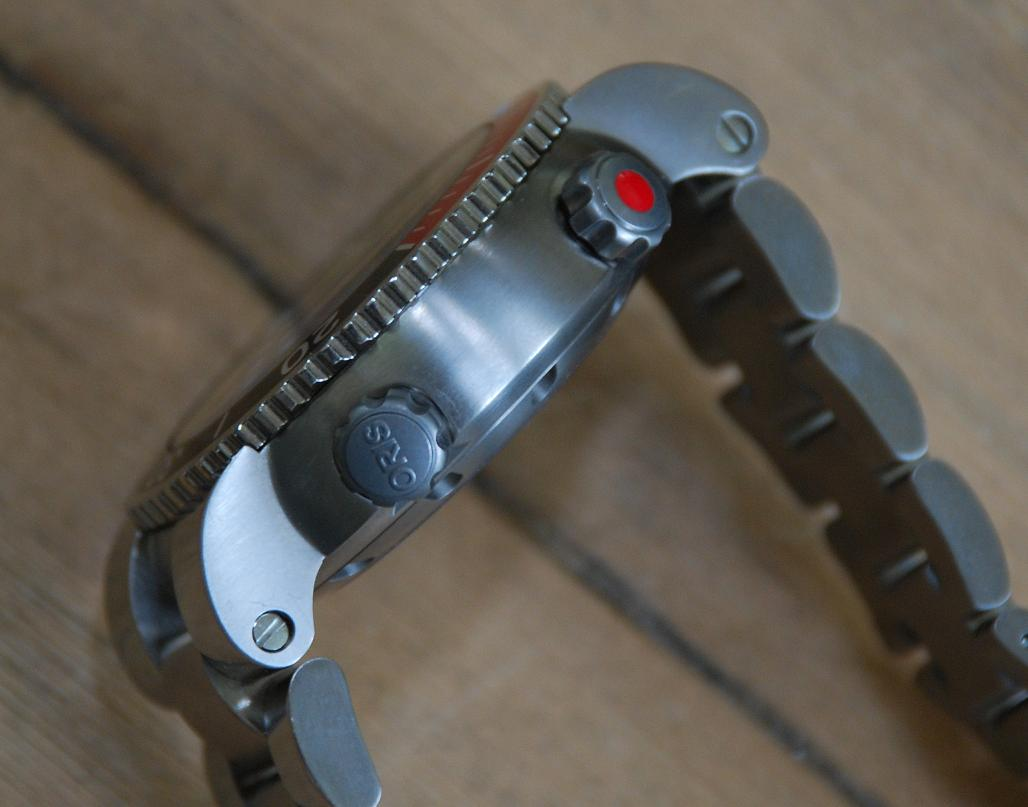 Picture showing the screwed wristband on an ORIS Meistertaucher